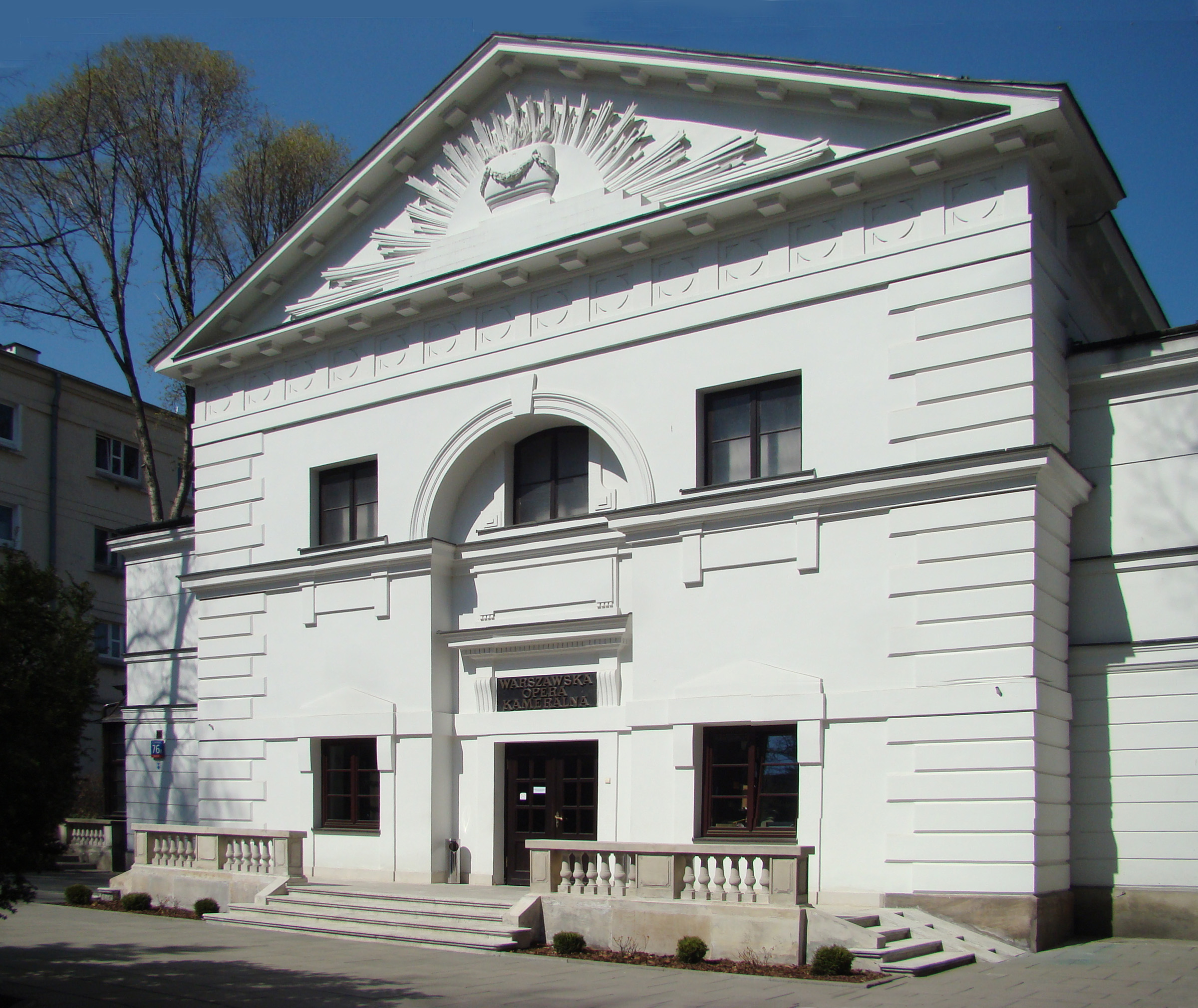 Warsaw Chamber Opera, former STS theatre